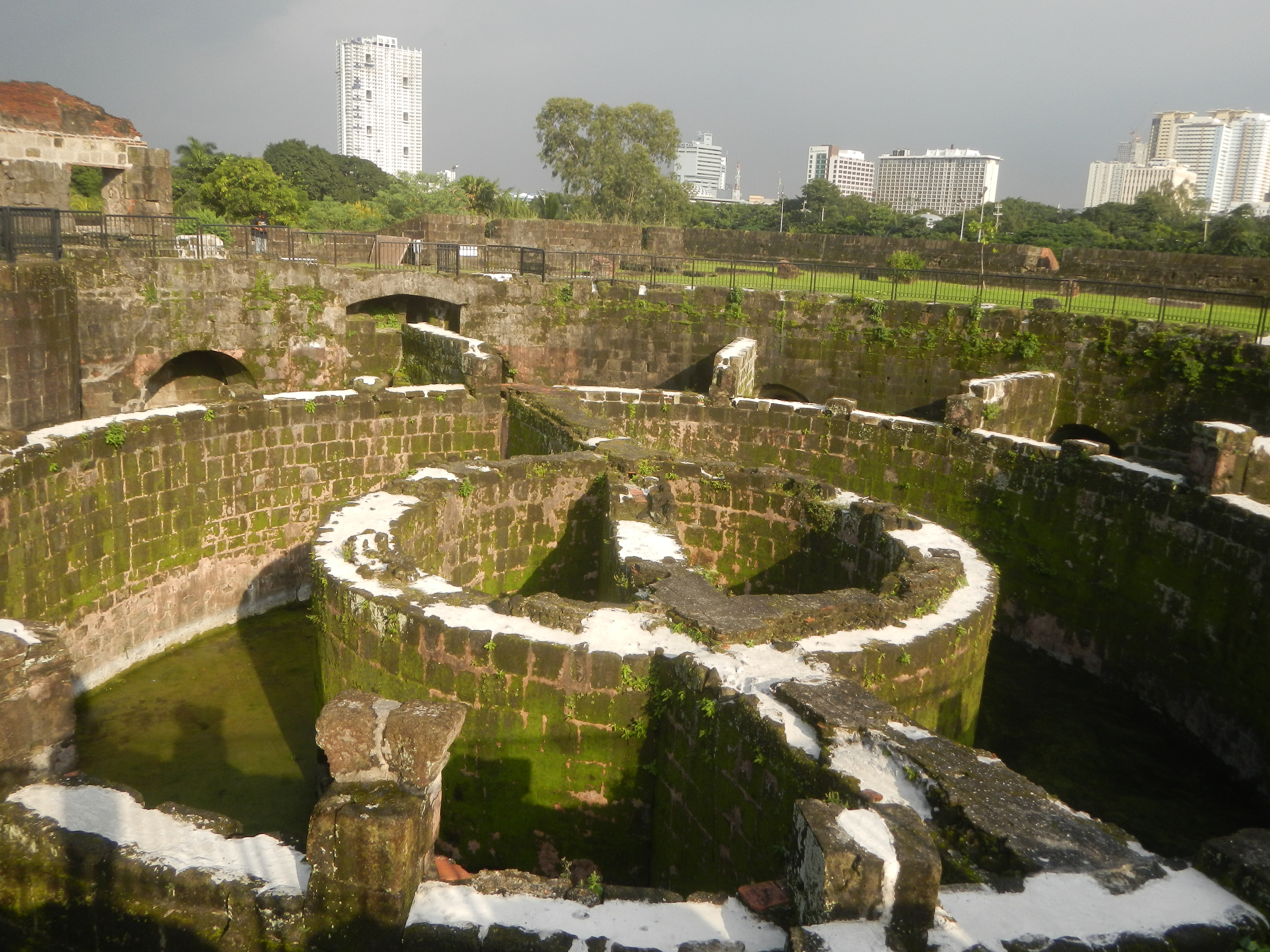 Baluarte de San Andrés 14°35'13"N 120°58'43"E Baluarte de San Diego Began as a circular fort called Nuestra Señora de Guia Baluarte de San Diego Gardens 14°35'10"N 120°58'31"E Santa Lucia Street corner Muralla Street, with new Orillons or curved corners Masking cannons on the flanks Oldest stone fort 1586 excavated in 1980 restored in 1992 (Note: Judge Florentino Floro, the owner, to repeat, Donor Florentino Floro of all these photos hereby donate gratuitously, freely and unconditionally all these photos to and for Wikimedia Commons, exclusively, for public use of the public domain, and again without any condition whatsoever).